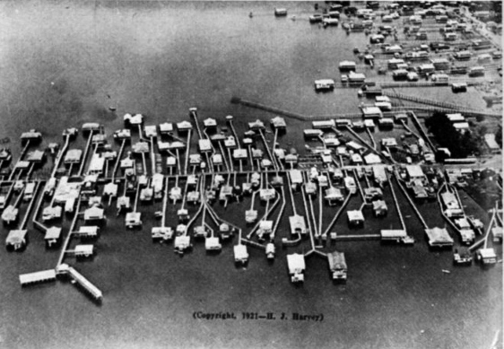 New Orleans, 1921. Aerial photographs of "camps" (structures on piers) in the shallows of Lake Pontchartrain at Milneburg.